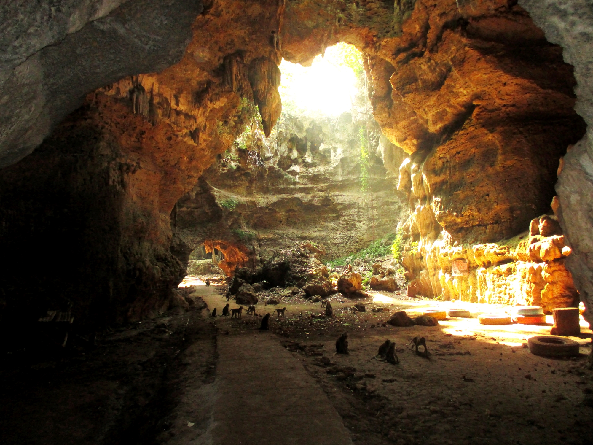 Expression error: Unrecognized word "goa".Expression error: Unrecognized word "goa".